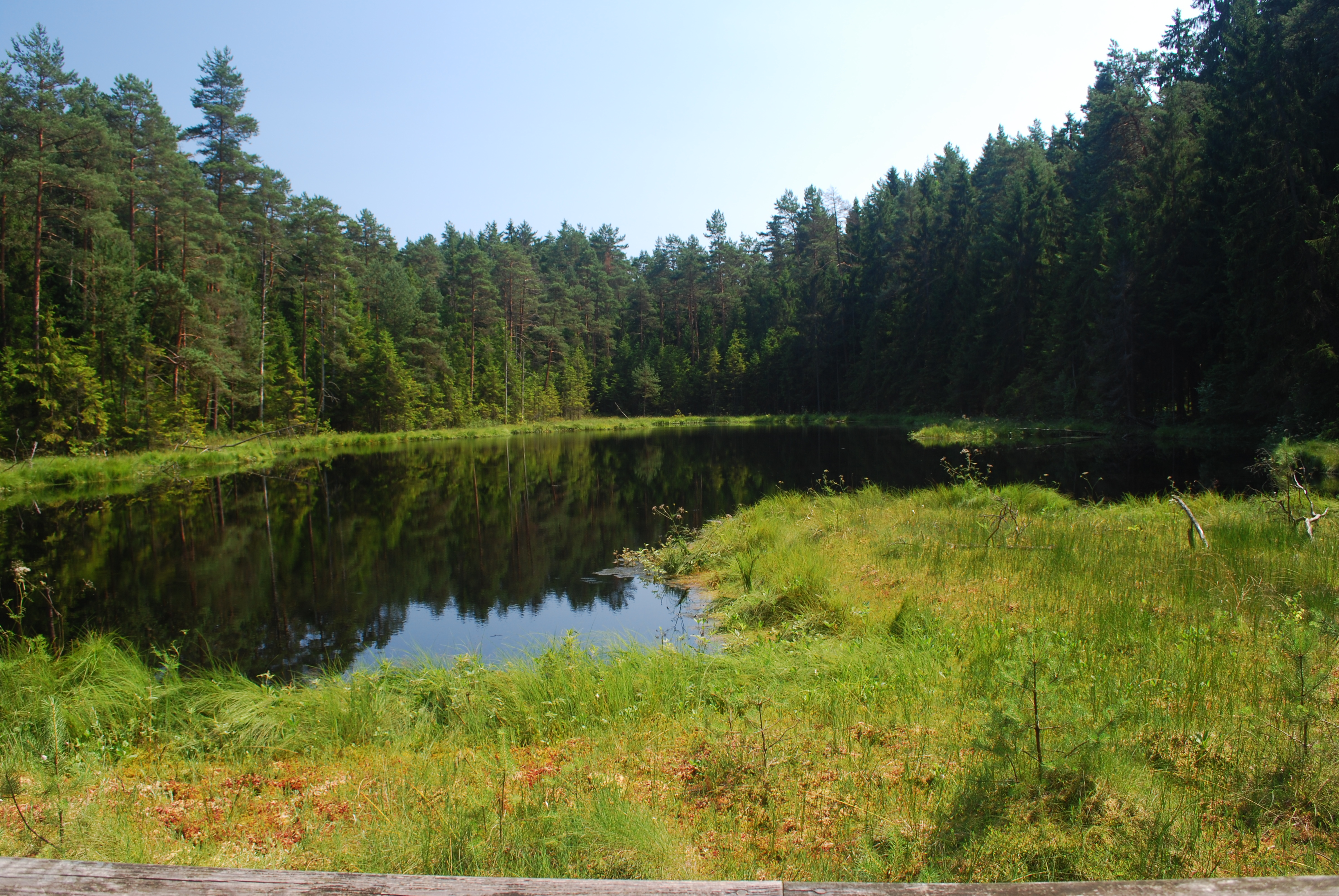 This photo from Podlaskie Voievodeship was taken during Polish Wikiexpedition 2009 set up by Wikimedia Polska Association. The making of this document was supported by Wikimedia Polska. Ścieżka edukacyjna "Suchary" w Wigierskim Parku Narodowym - suchar nr. 3.